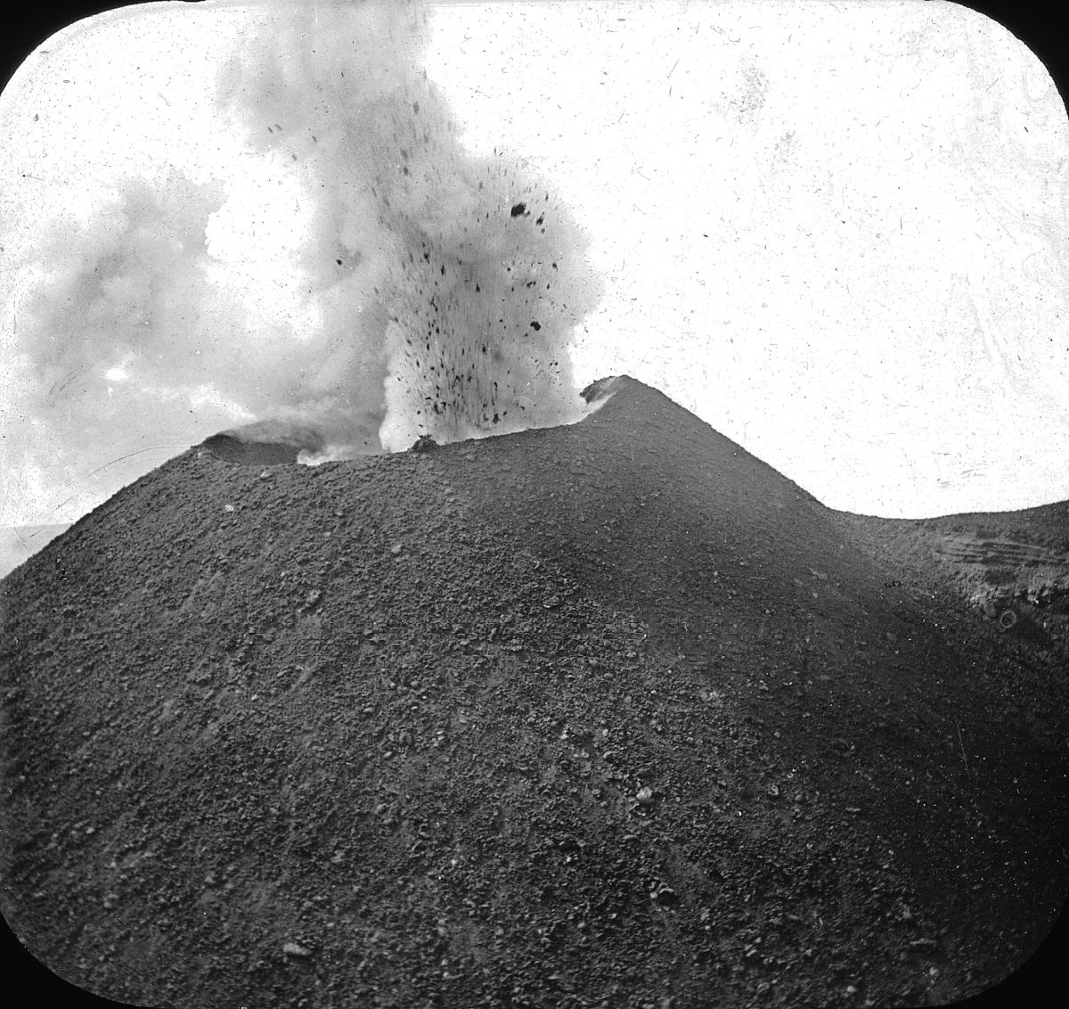 Vesuvius, Italy. Vesuvius [erupting]. Brooklyn Museum Archives, Goodyear Archival Collection (S03_06_01_024 image 3120).